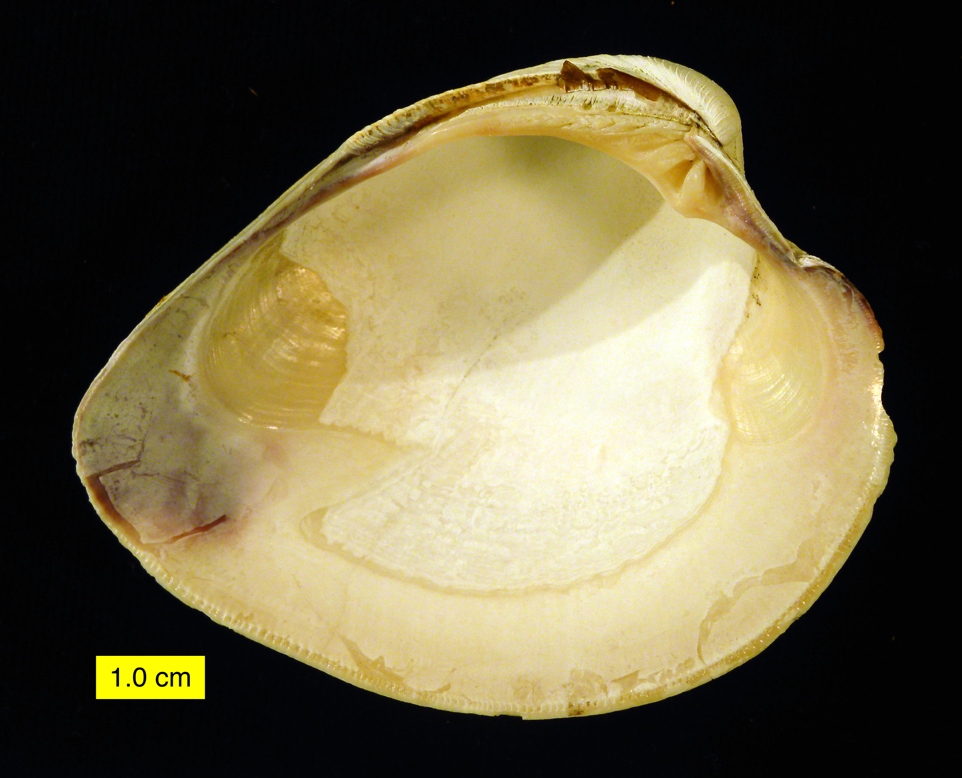 Left valve interior of Mercenaria mercenaria (East Coast, North America).